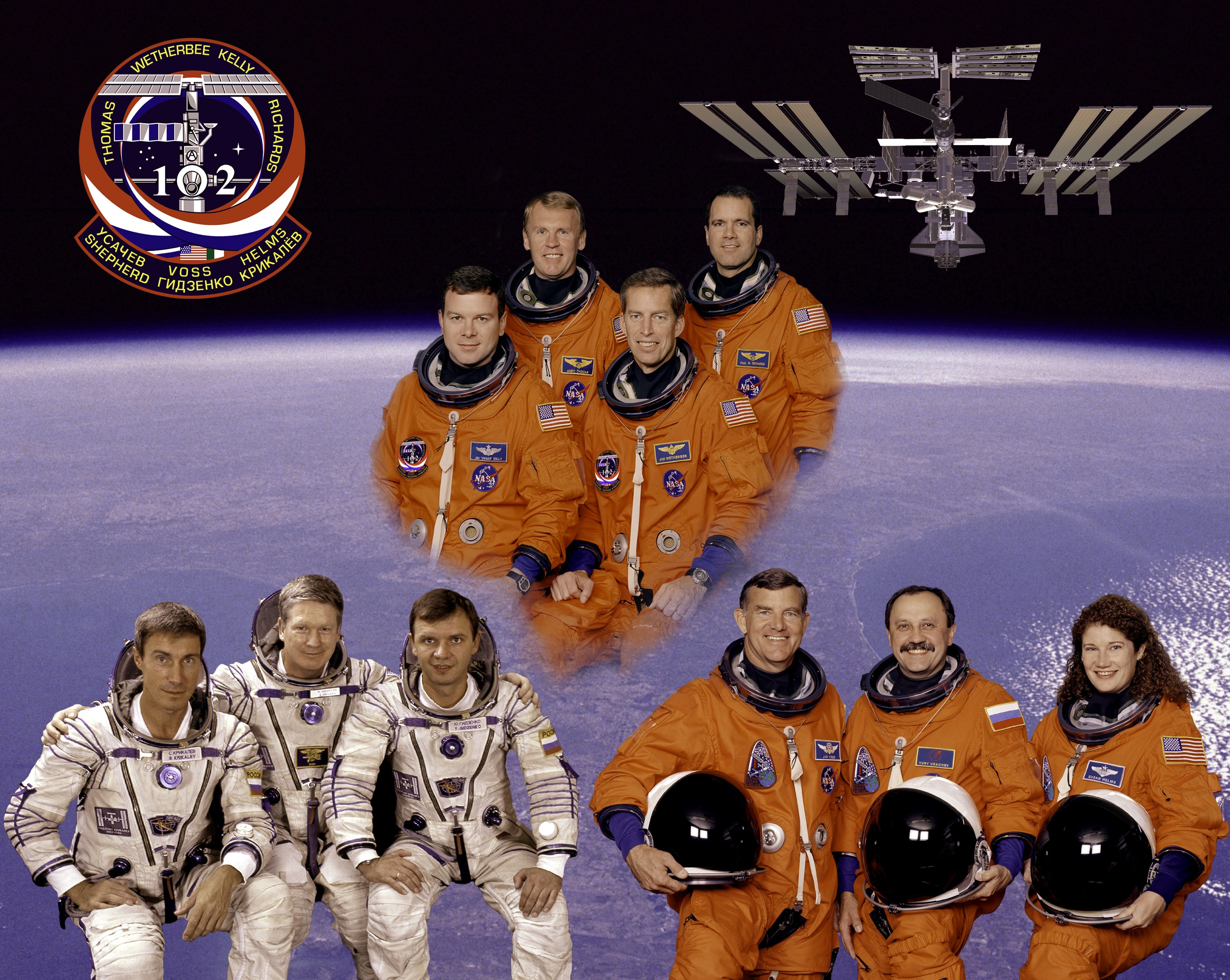 With the full-time occupancy of the International Space Station (ISS), Space Transportation System crew portraits have taken on a new look, as depicted in this composite scene. These ten astronauts and cosmonauts represent the base STS-102 space travelers, as well as the crew members for the station crews switching out turns aboard the outpost. In the top group are, from the left, astronauts James M. Kelly, pilot; Andrew S.W. Thomas, mission specialist; James D. Wetherbee, mission commander; and Paul W. Richards, mission specialist. The bottom left grouping is the Expedition One crew, which includes, from left, cosmonaut Sergei K. Krikalev, flight engineer; astronaut William M. (Bill) Shepherd, commander; and cosmonaut Yuri P. Gidzenko, Soyuz commander. At bottom right is the crew who will replace Shepherd and his collegues aboard the station, from the left, astronaut James S. Voss; cosmonaut Yury V. Usachev, Expedition Two commander; and astronaut Susan J. Helms. Usachev, Krikalev and Gidzenko all represent the Russian Aviation and Space Agency.